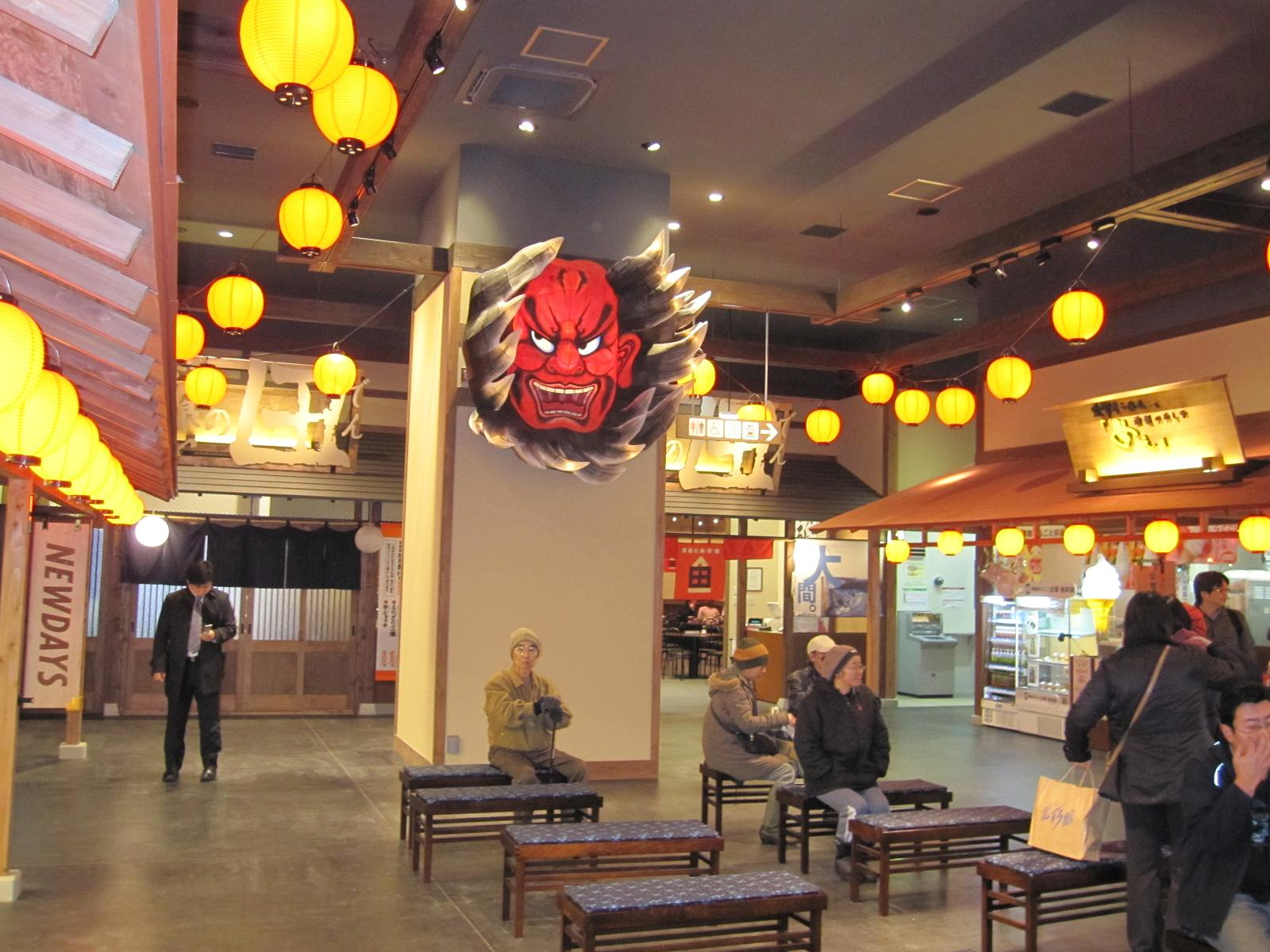 Azumashi square at Shin-Aomori station